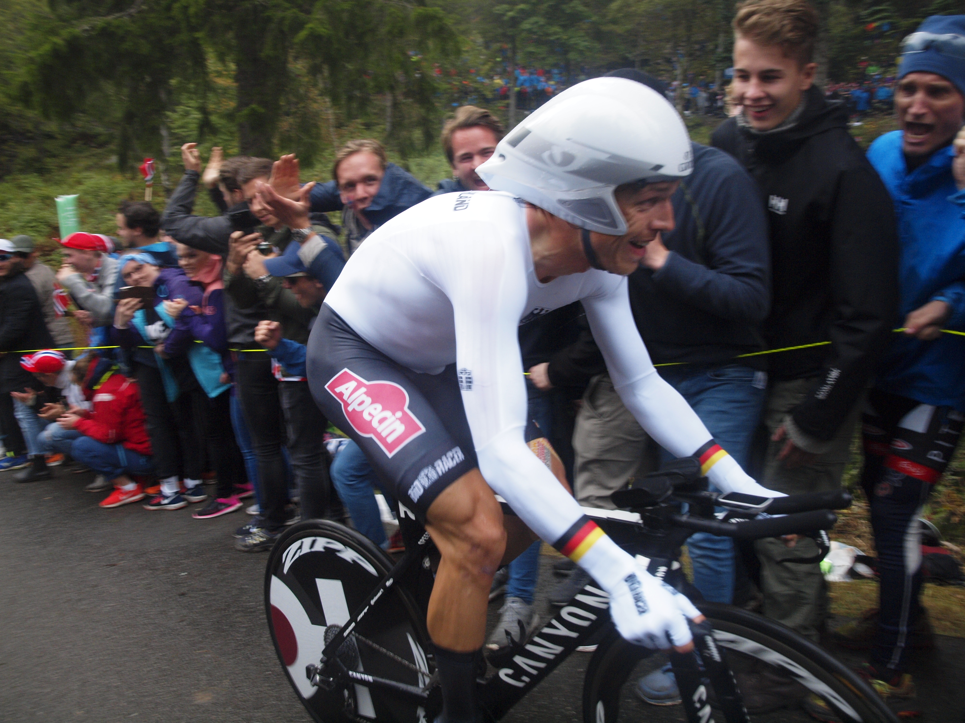 Tony Martin at the 2017 UCI World Championships